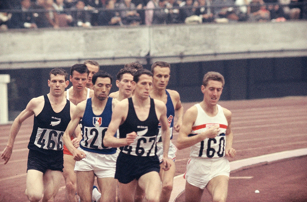 Athletes compete in the Men's 1,500m Final at the National Stadium during the Tokyo Olympic on October 21, 1964 in Tokyo, Japan. Left-right: Peter Snell, Josef Odložil, Michel Bernard, John Davies, John Whetton